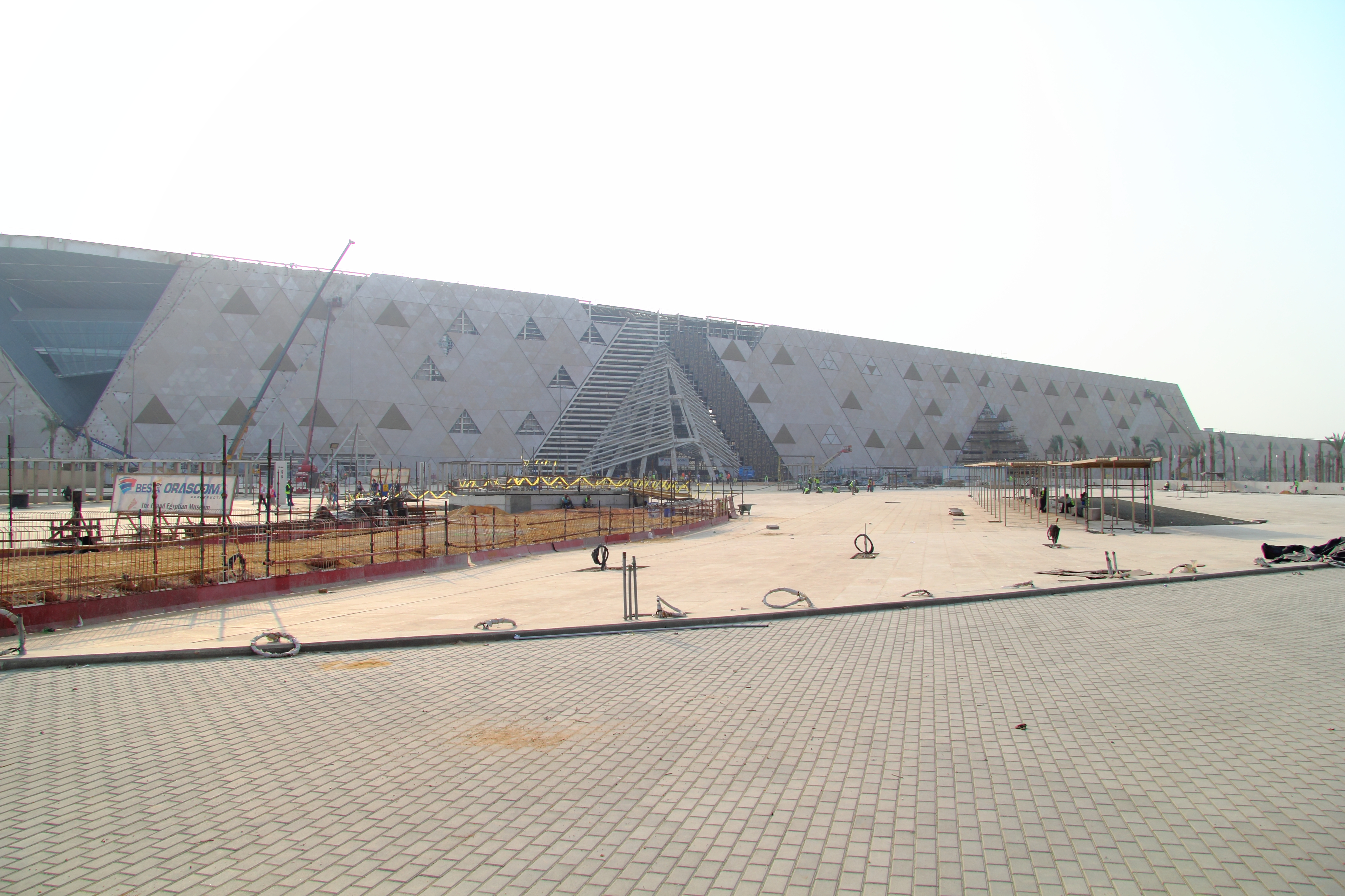 Cairo, Egypt: Grand Egyptian Museum under construction (November 2019)